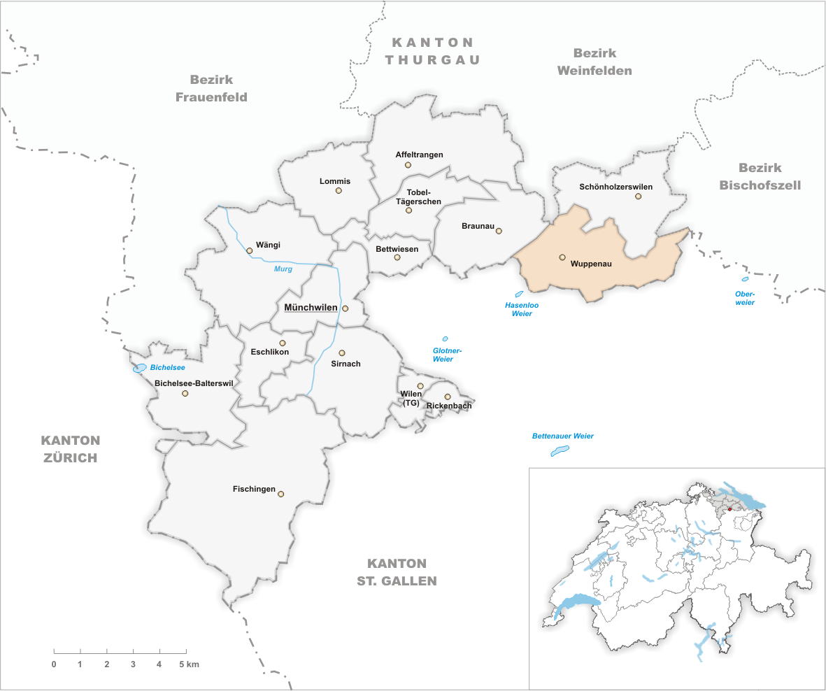 Municipality Wuppenau